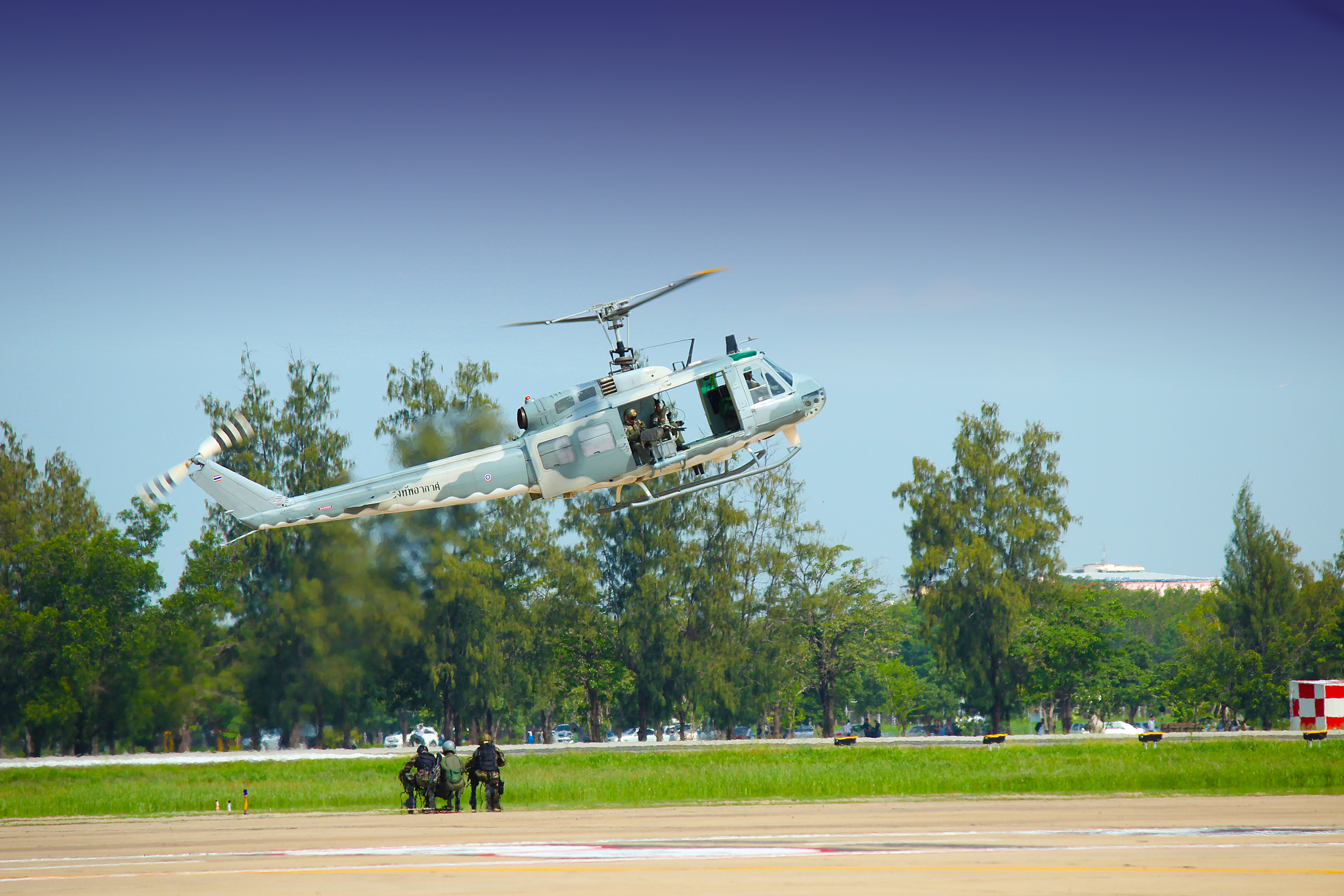 Royal Thai Air Force UH-1H : During air show at Donmaung air force base , Thailand.